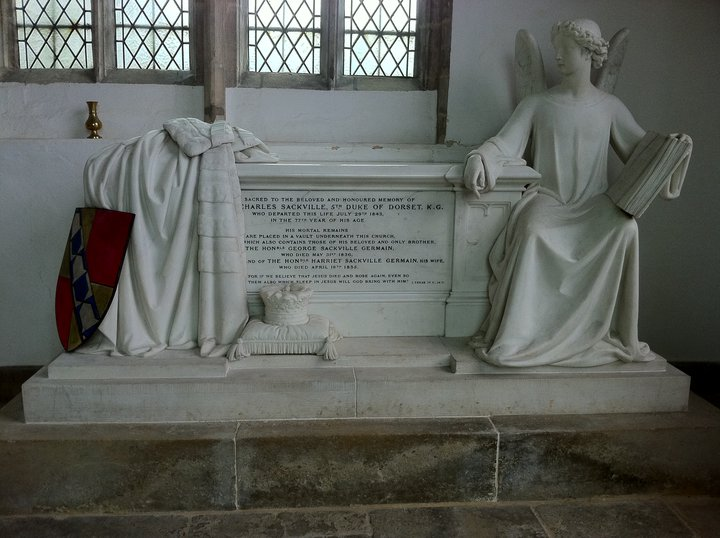 Memorial to the Fifth Duke of Dorset in St. Peter's Church, Lowick, Northamptonshire